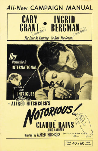 Poster for the 1946 film Notorious.